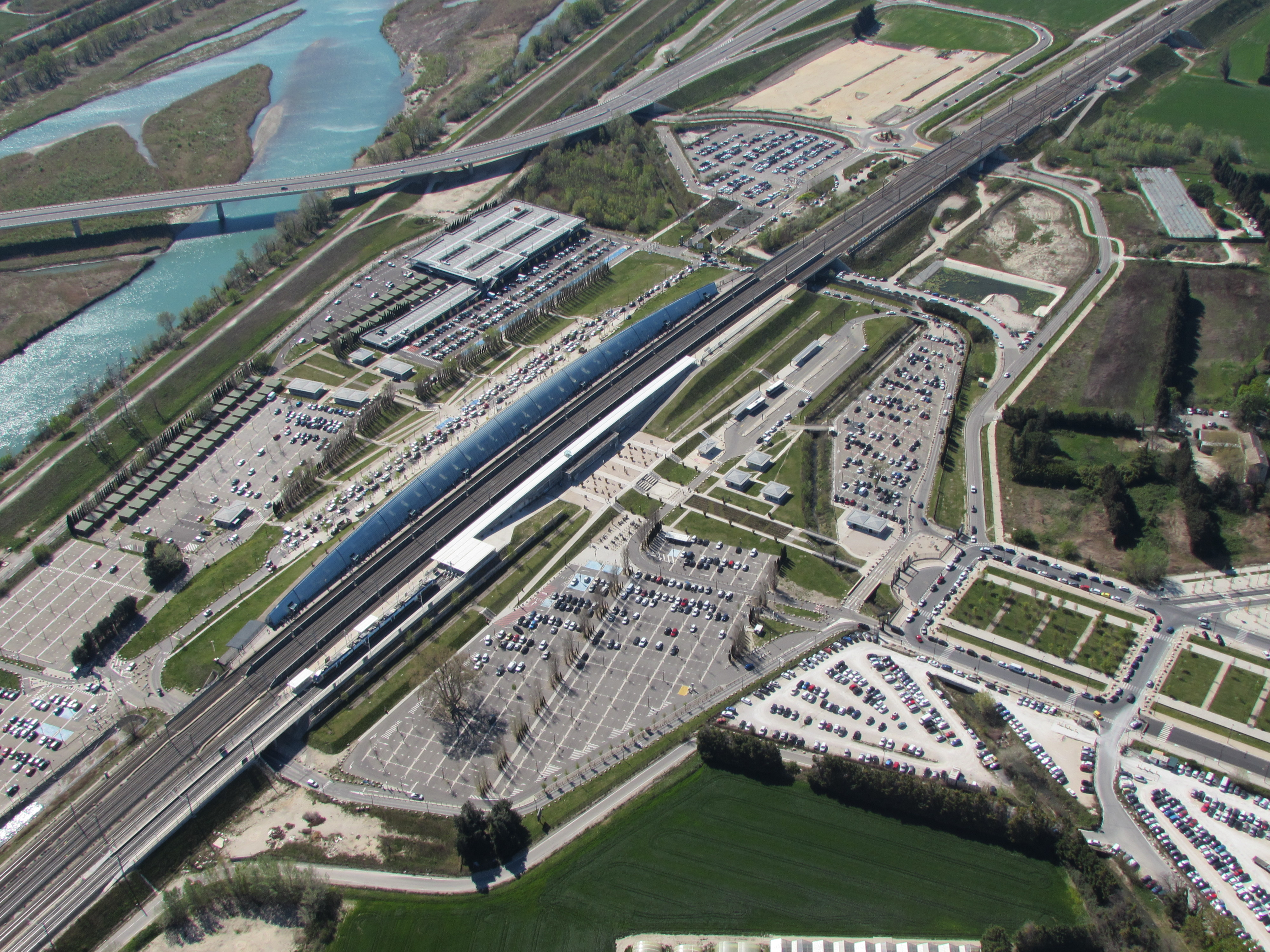 Gare TGV d'Avignon : sky view in May 2015